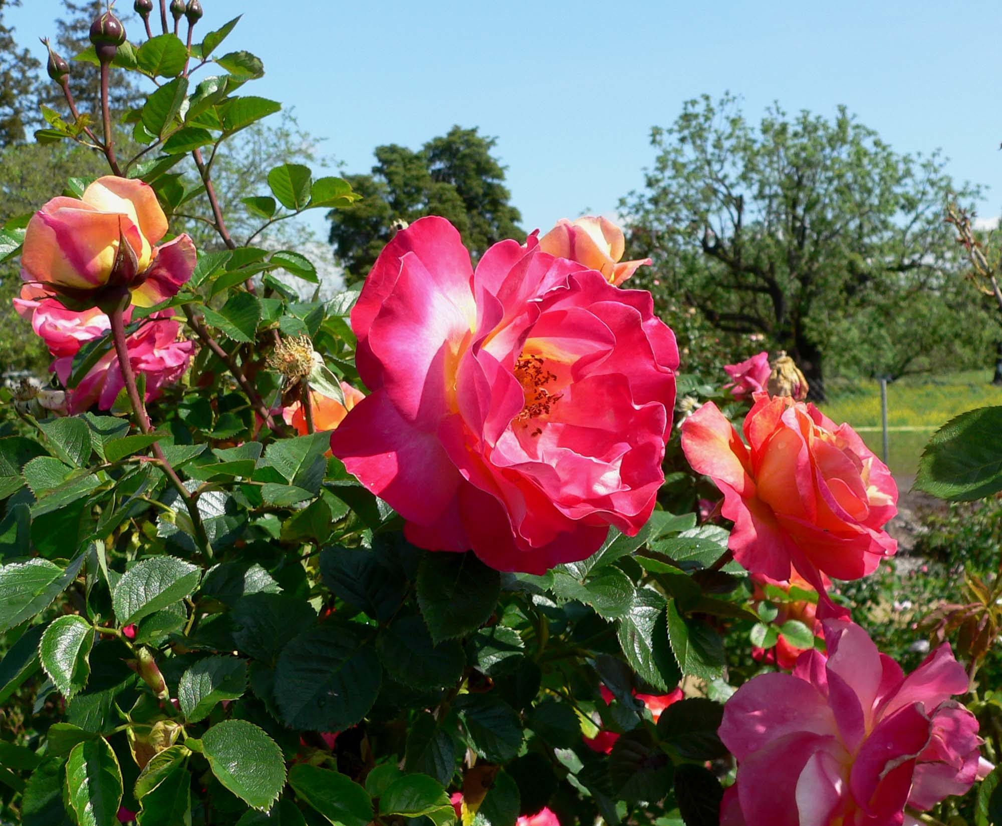 Photo of Rosa 'Honeysweet' at the San Jose Heritage Rose Garden